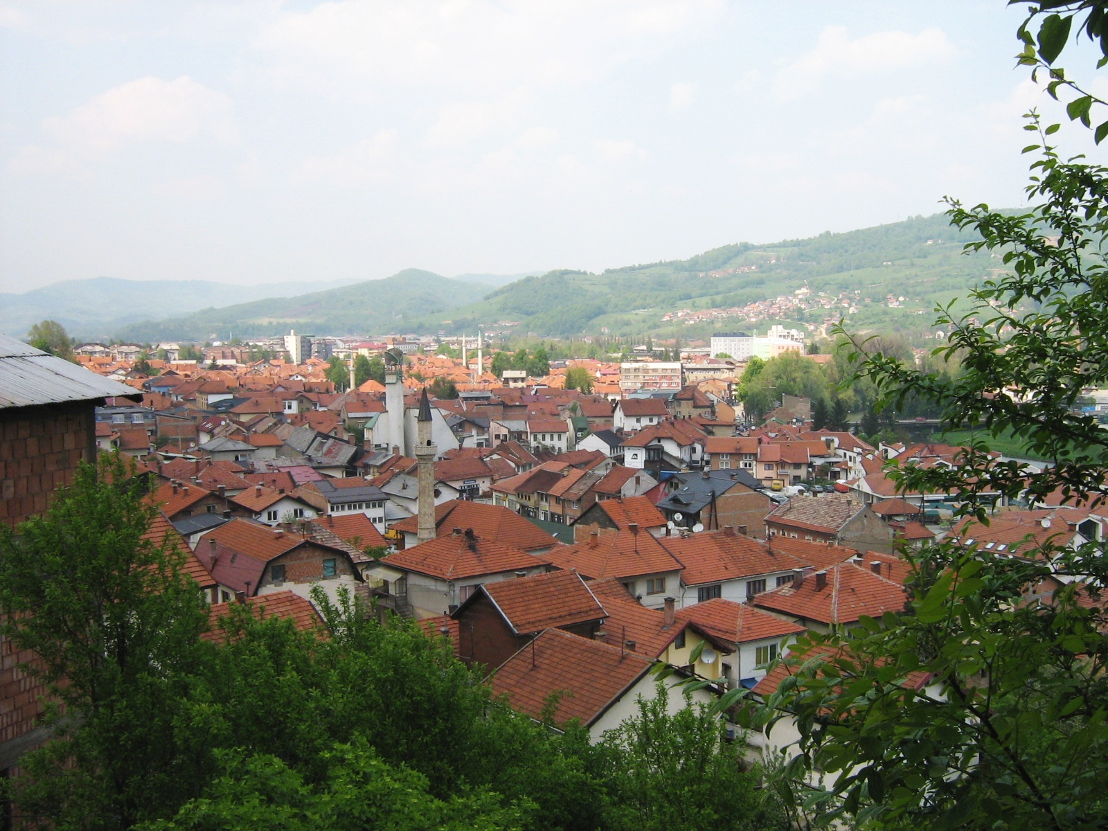 View from beneath Visocica, note line of mosques.